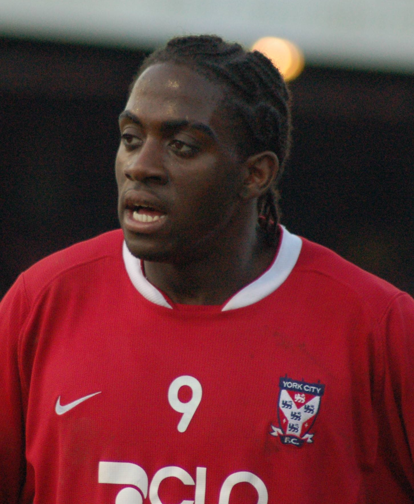 Clayton Donaldson playing for York City against Weymouth at Bootham Crescent, York on 17 February 2007